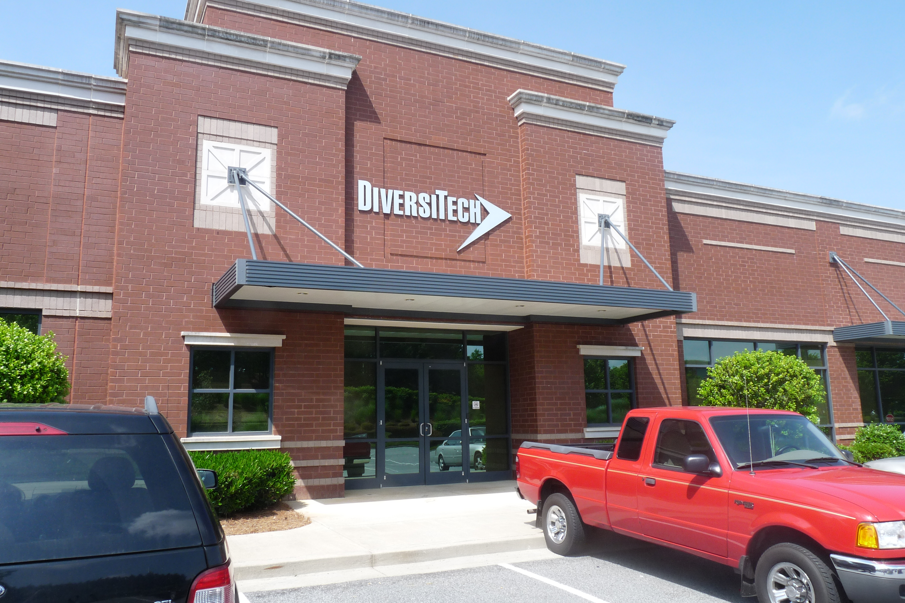 DiversiTech Corporate Headquarters in Duluth, Georgia